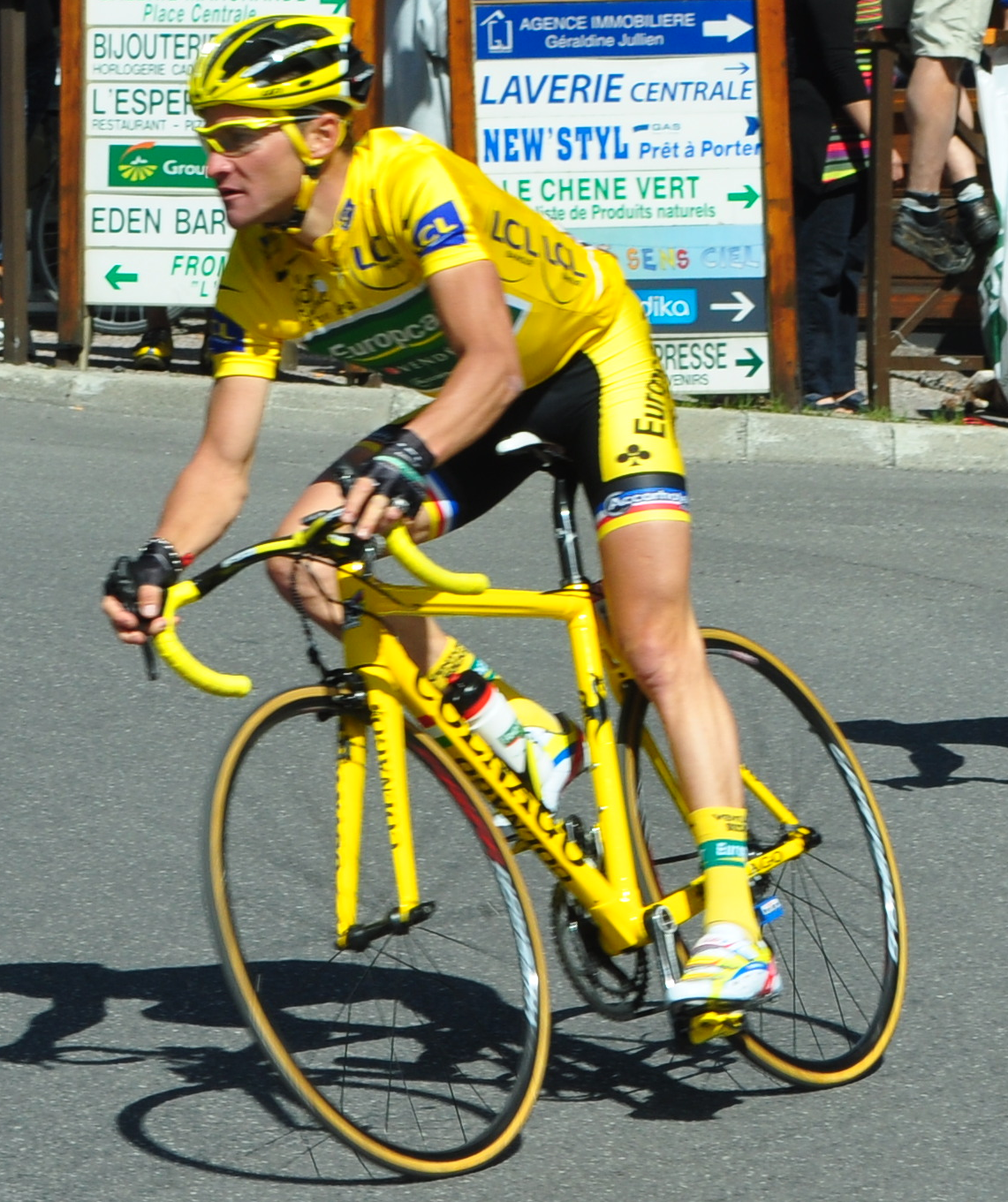 Thomas Voeckler wearing the Maillot Jaune, enroute to his fourth place finish at the 2011 Tour De France, as the highest placed Frenchman in over a decade.